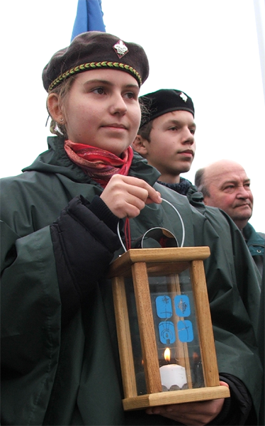 Ukrainian guide (plastunka) from Plast with Pfadfinder und Pfadfinderinnen Österreichs#Peace Light of Bethlehem on Ukrainian-Polish border